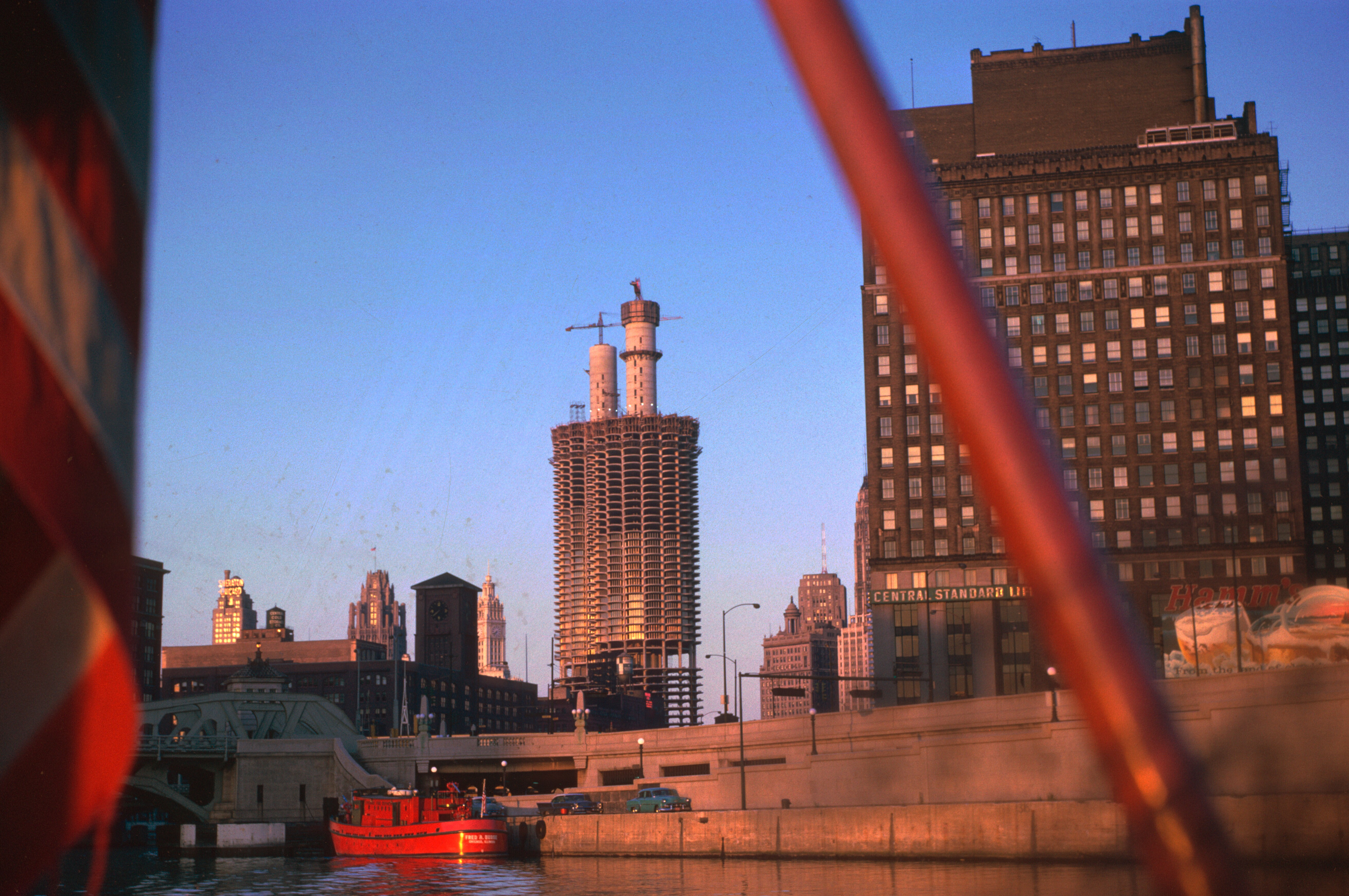 Marina City, Chicago, under construction (architect: Bertrand Goldberg). Other images by this contributor - Use this image as needed, but for uses other than personal, please credit as "Photo by Chalmers Butterfield".